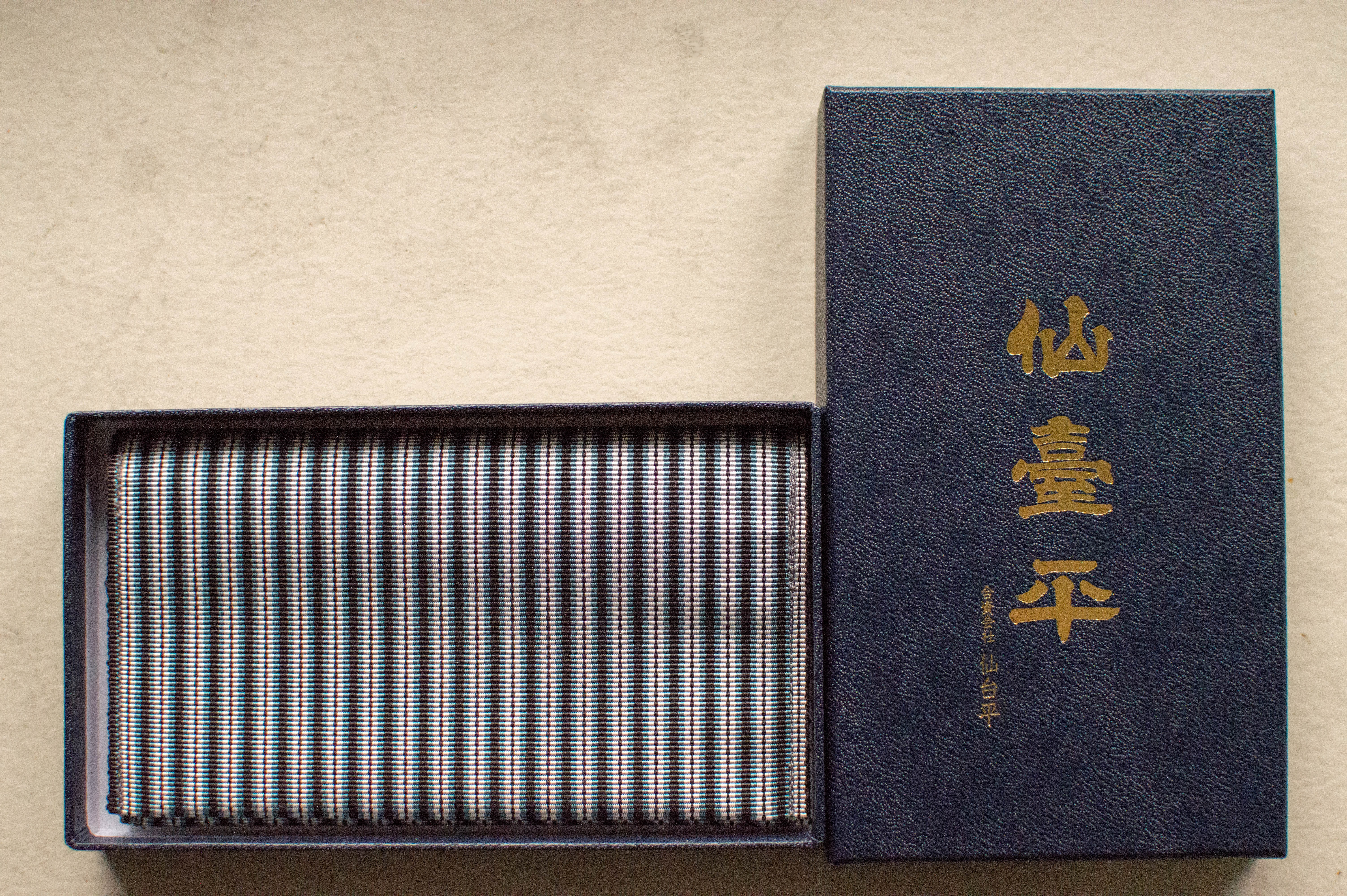 Silk name card holder - Sendaihira